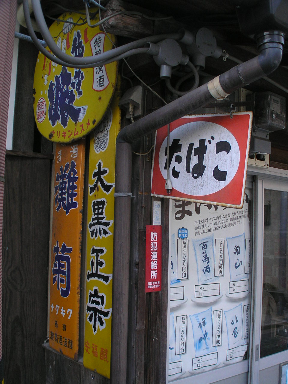 Murotsu, Hyogo